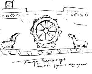 Dharmachakra